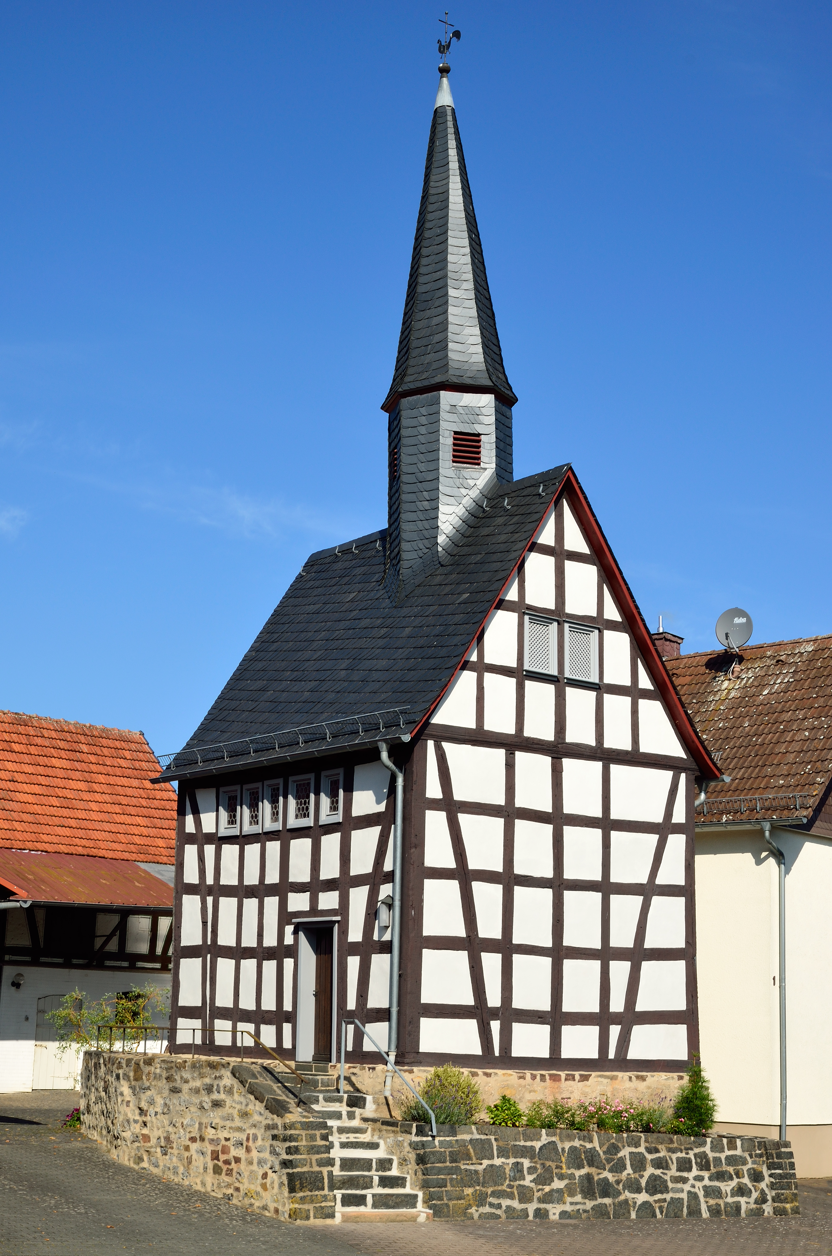 Timber framed church in Rüchenbach, Gladenbach